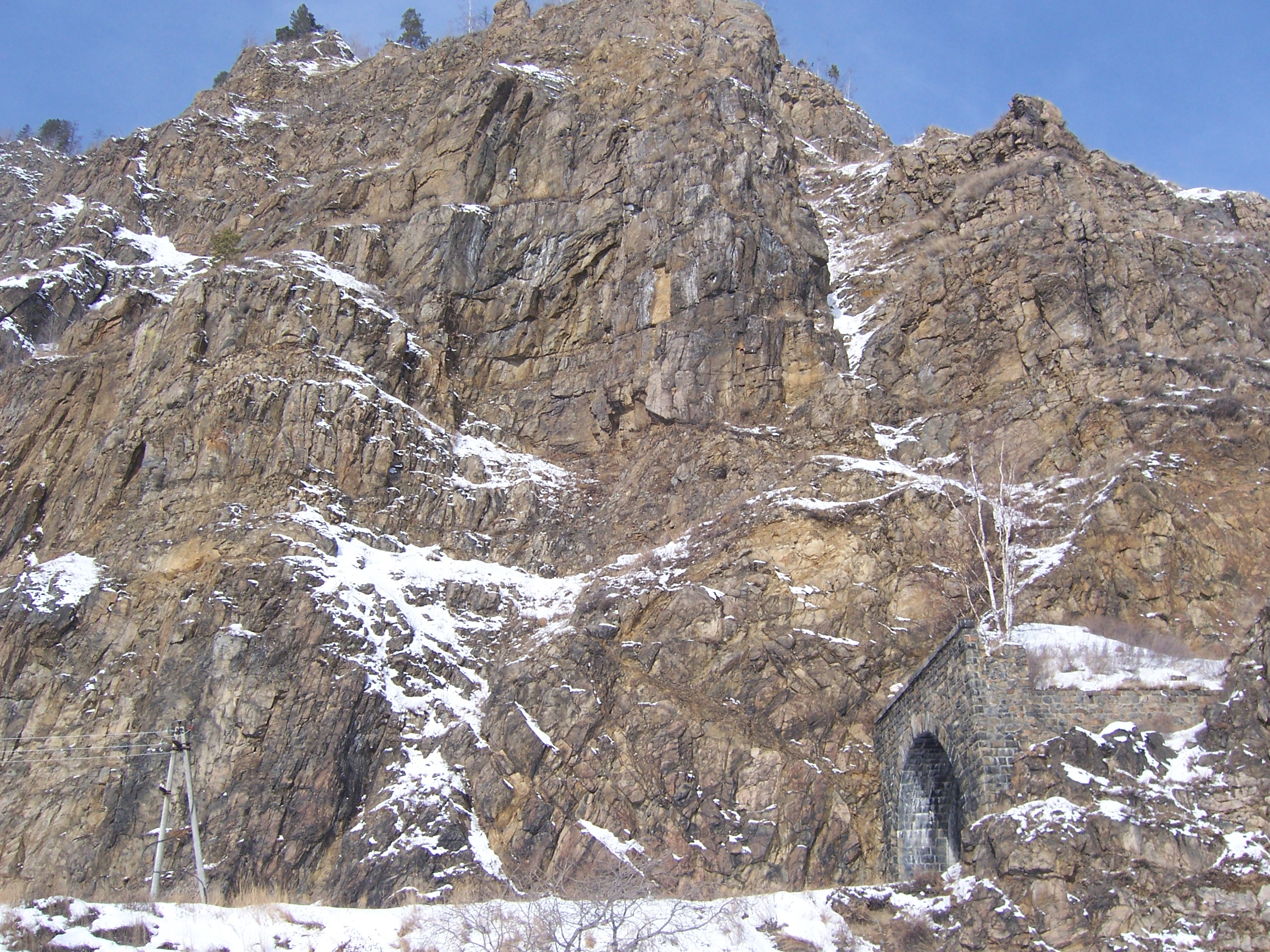 West entrance of the Tunnel No. 3 of the Circum-Baikal Railway photographed from the lake ice